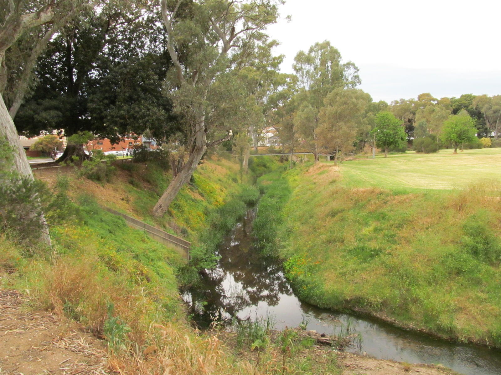 South Para River flowing through Apex Park, Gawler, South Australia